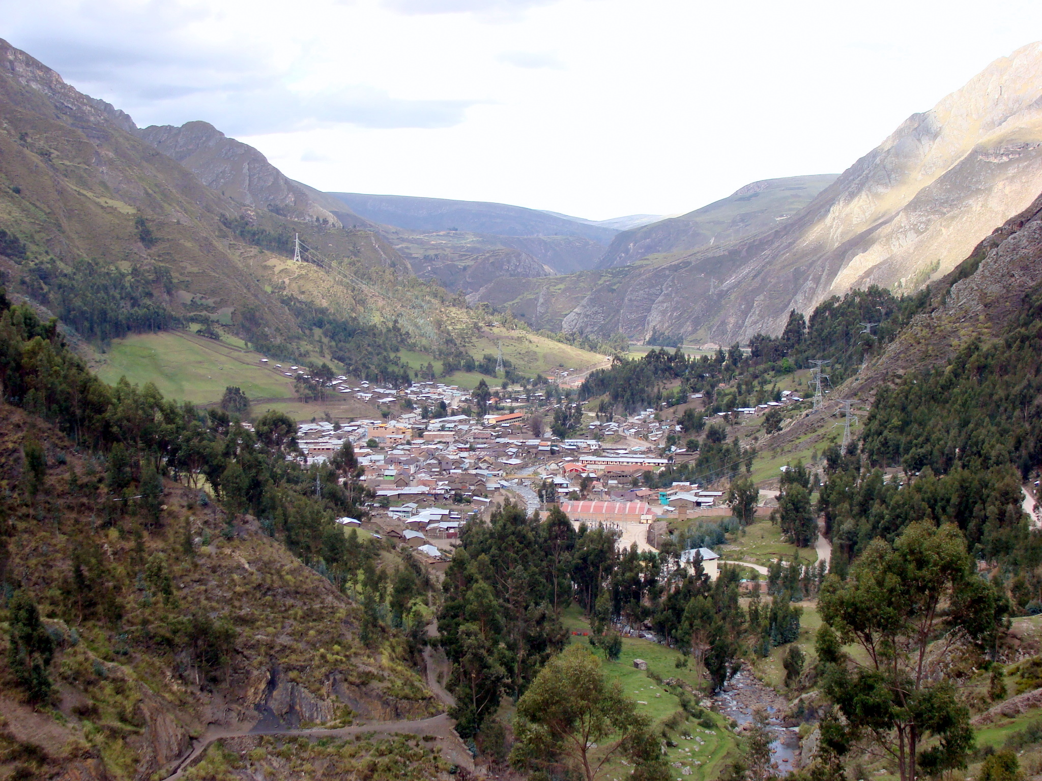 Panoramic view of Huallanca from Huamantanga hill